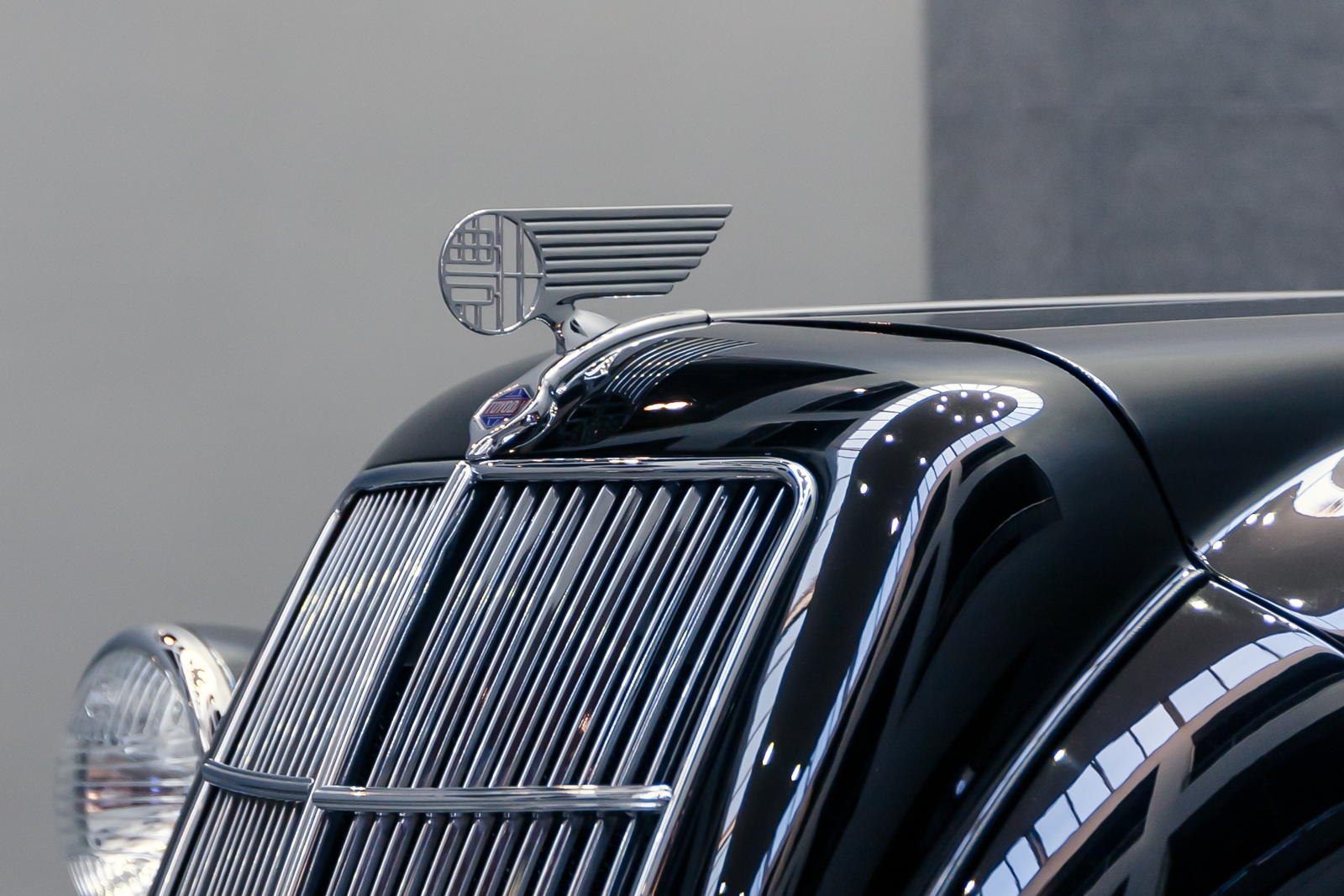 1936 Toyota Model AA (Toyoda Model AA), hood ornament